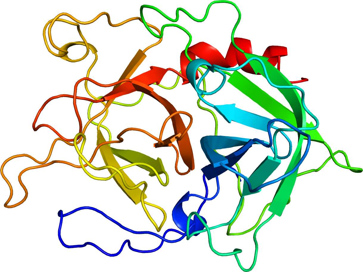 3d structure of desmoteplase (draculin) in two views from PDB 1A5I. Ref.: M.Renatus et al. (1997). Catalytic domain structure of vampire bat plasminogen activator: a molecular paradigm for proteolysis without activation cleavage.. Biochemistry, 36, 13483-13493. PMID 9354616 [